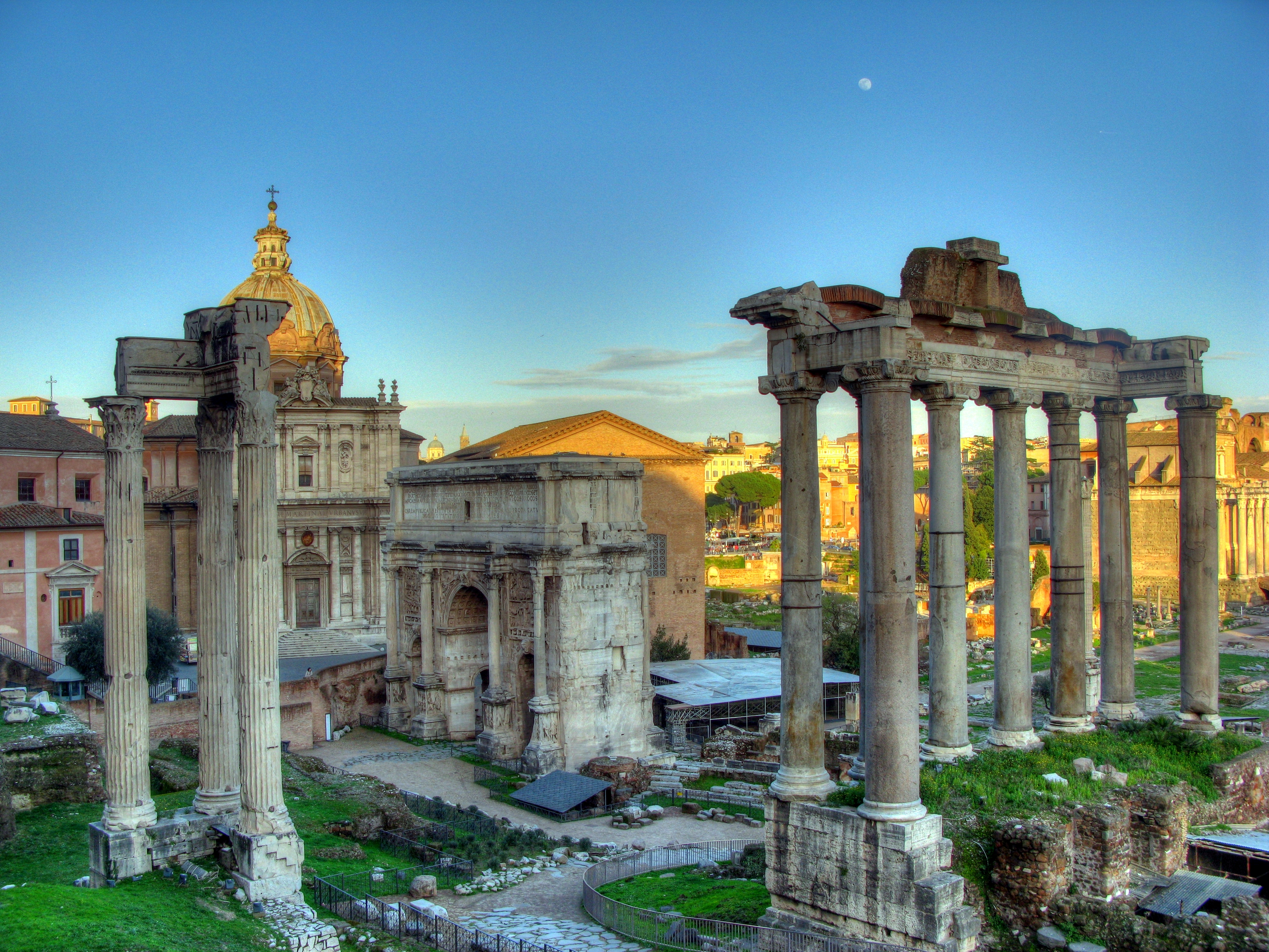 HDR image generated from three exposures (0 EV, +2 EV, -2 EV) using Photomatix Pro .